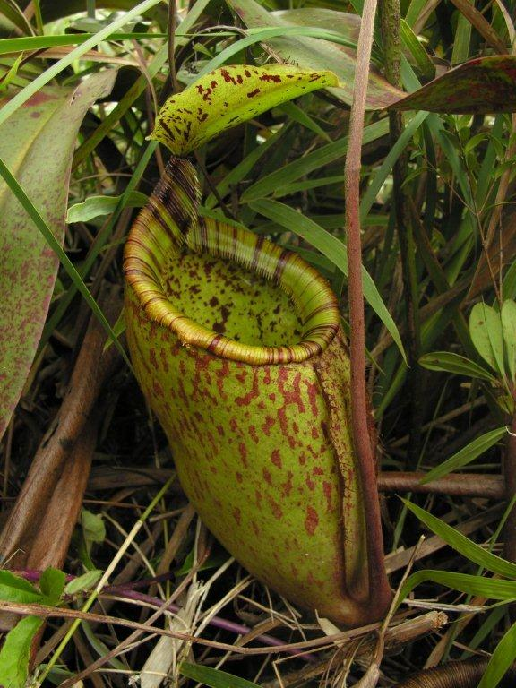 Nepenthes palawanensis lower pitcher